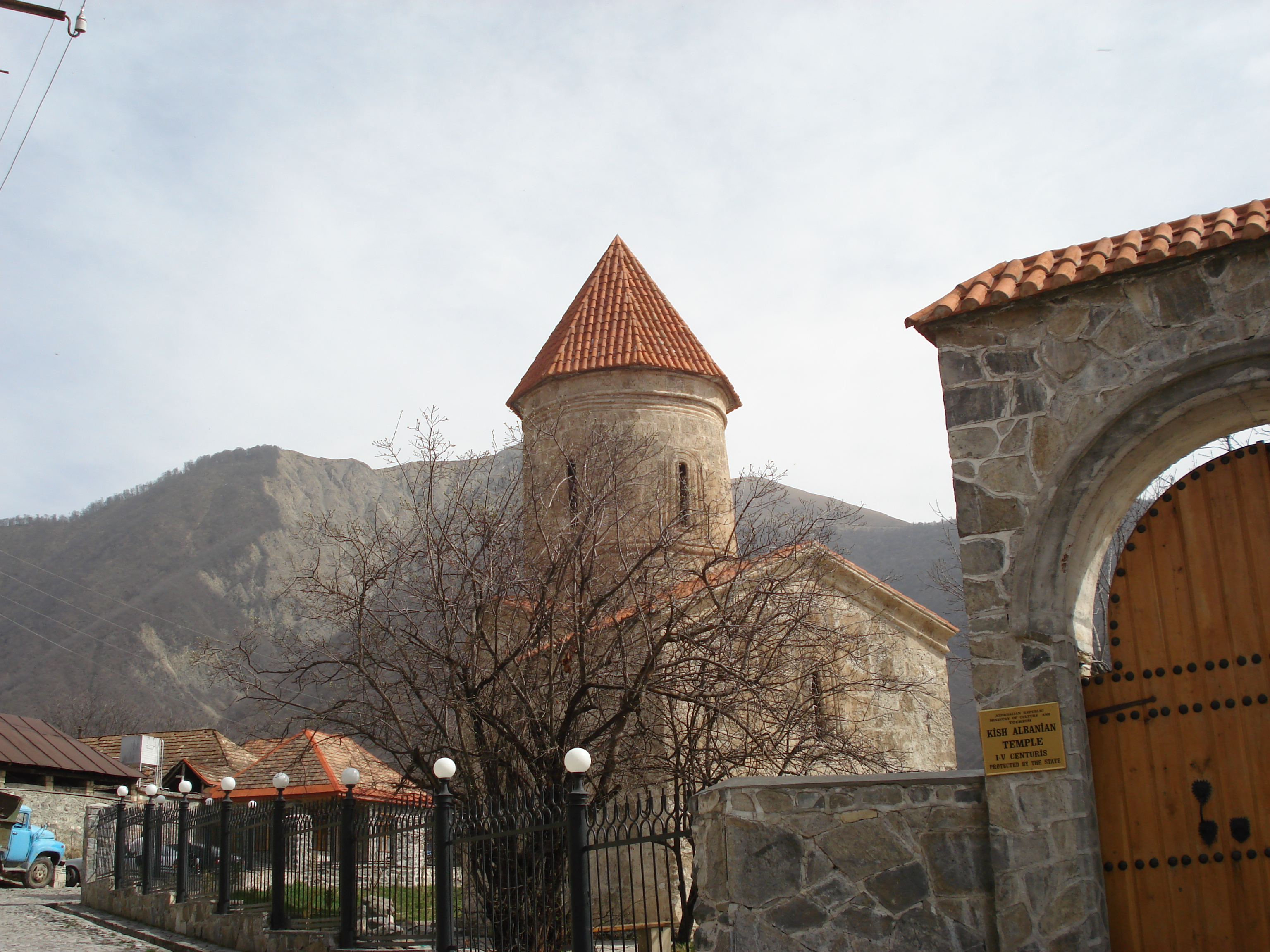 Kish in Sheki